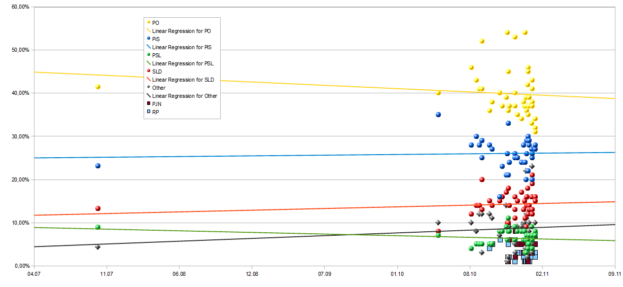 Poland 2011 election pools at 21. february 2011